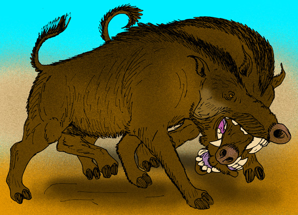 Reconstruction of a pair of the Early Oligocene entelodont, Archaeotherium mortoni, fighting.